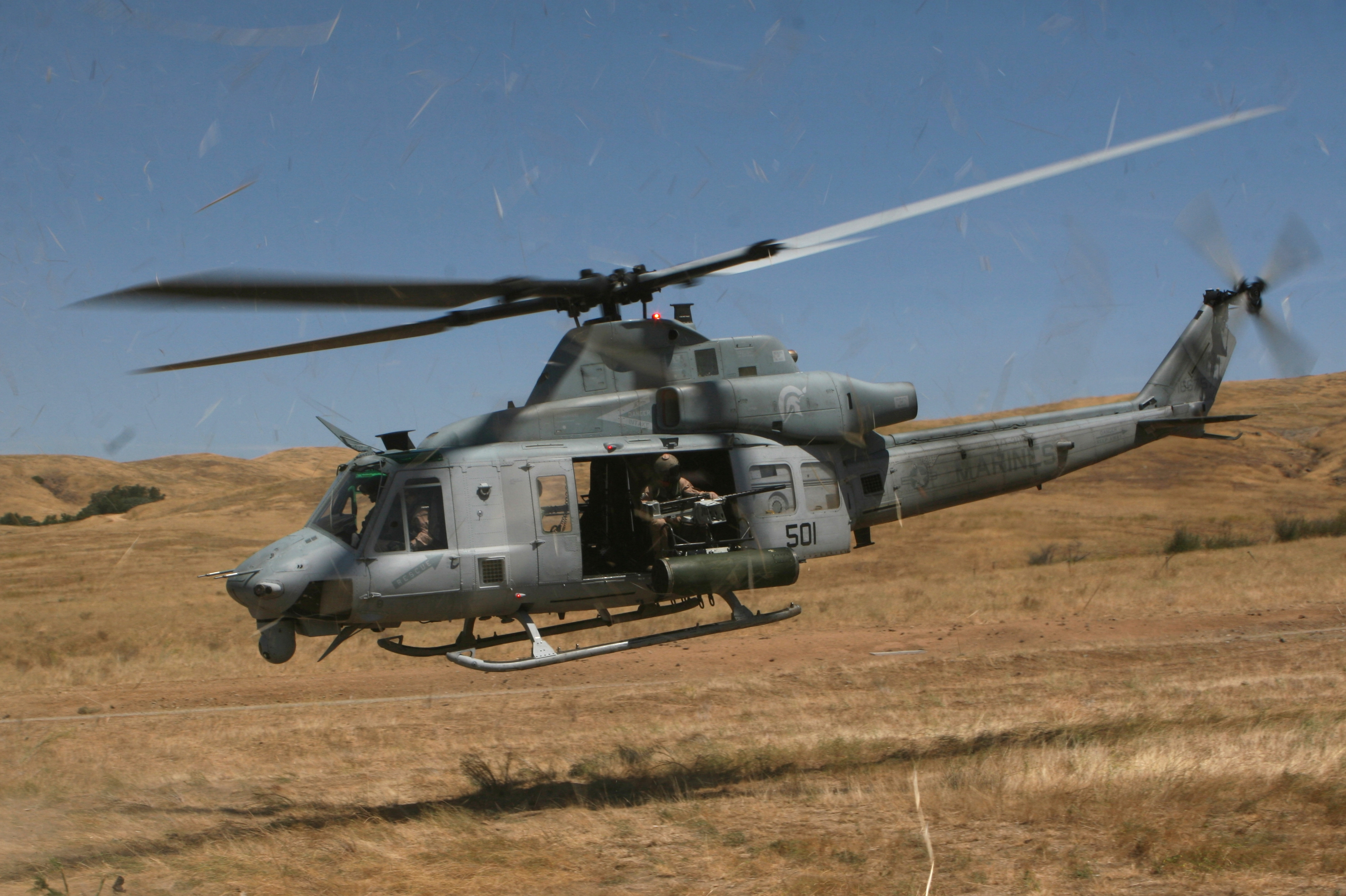 U.S. Marine Corps pilots from Marine Light Attack Helicopter Training Squadron 303, Marine Aircraft Group 39, 3rd Marine Aircraft Wing, prepare to land a UH-1Y Huey belonging to the squadron, during confined area landing training at Marine Corps Base Camp Pendleton, California (USA), 28 August 2008. The squadron was the first in the U.S. Marine Corps to train air crew and maintainers for the UH-1Y.